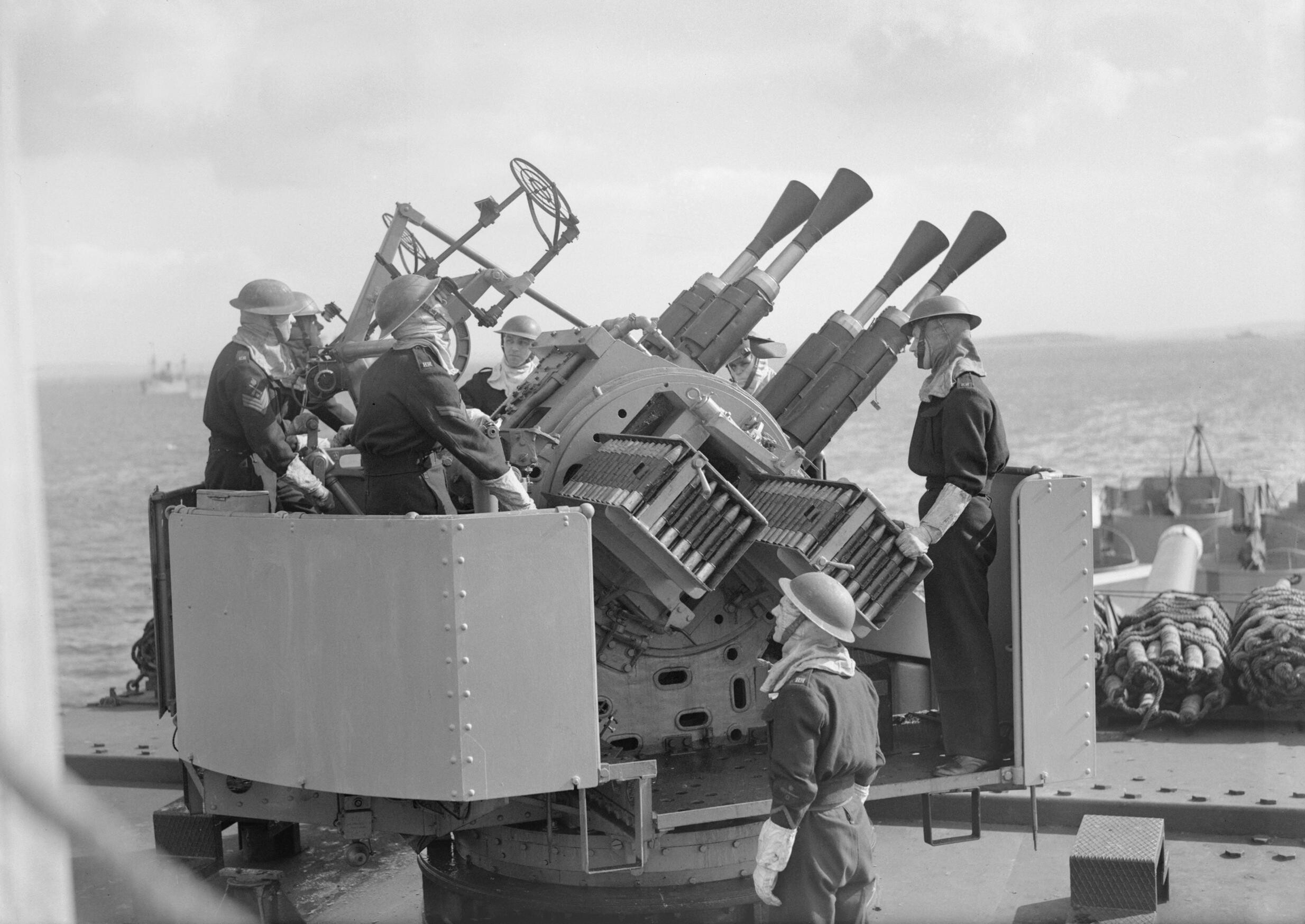 The Royal Navy during the Second World War A marine crew mans the four barrelled two pounder Mark VIII 'pom-pom' gun of a battleship while on active service afloat in Scapa Flow.